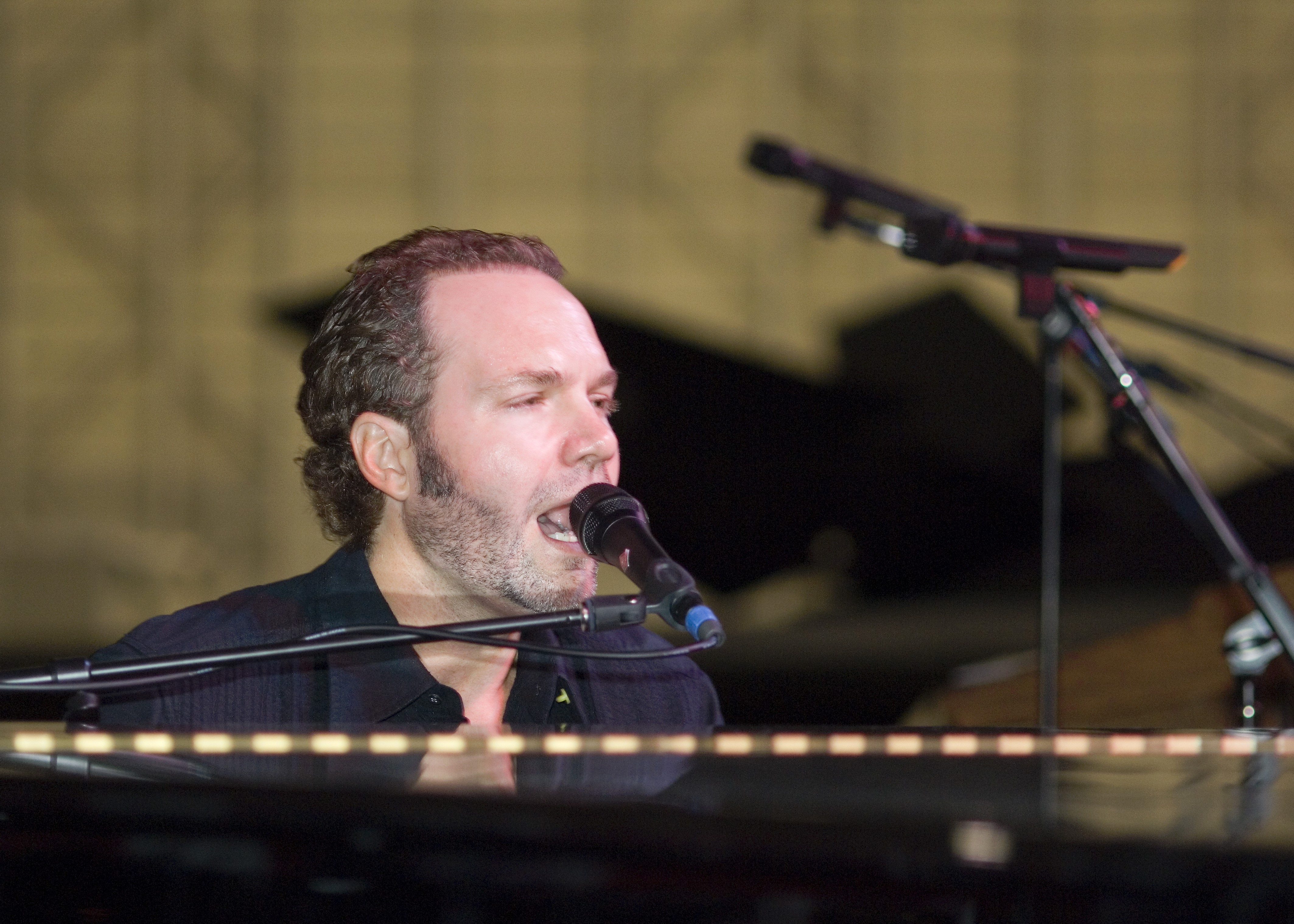 John Ondrasik of Five for Fighting performs his hit song "Superman" during the Edwards Air Force Ball at hangar 1600 here Sept. 21.